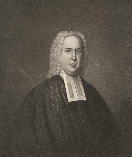 Charles Chauncy (1592-1672)